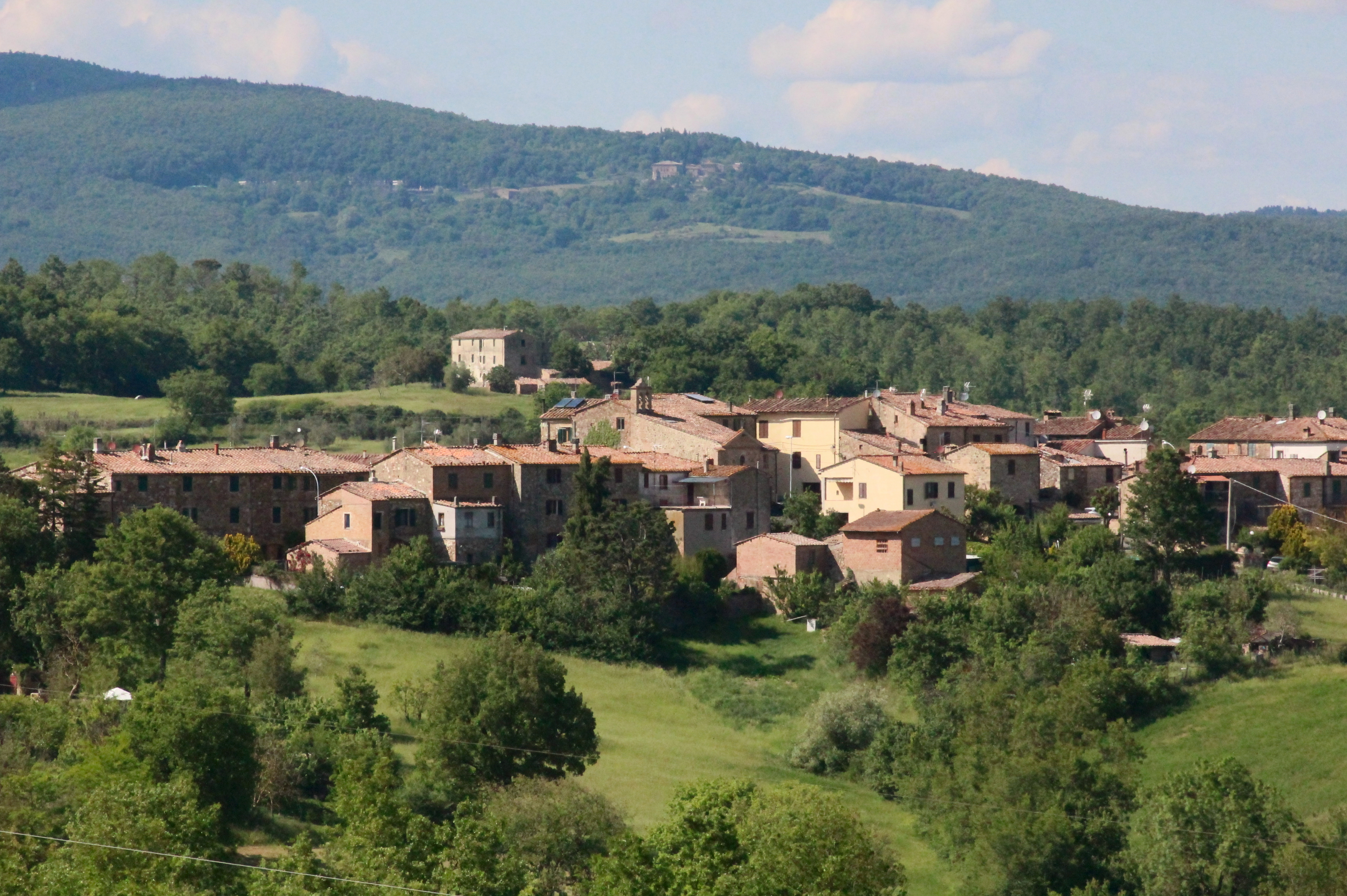 Frassini, hamlet of Chiusdino, Province of Siena, Tuscany, Italy